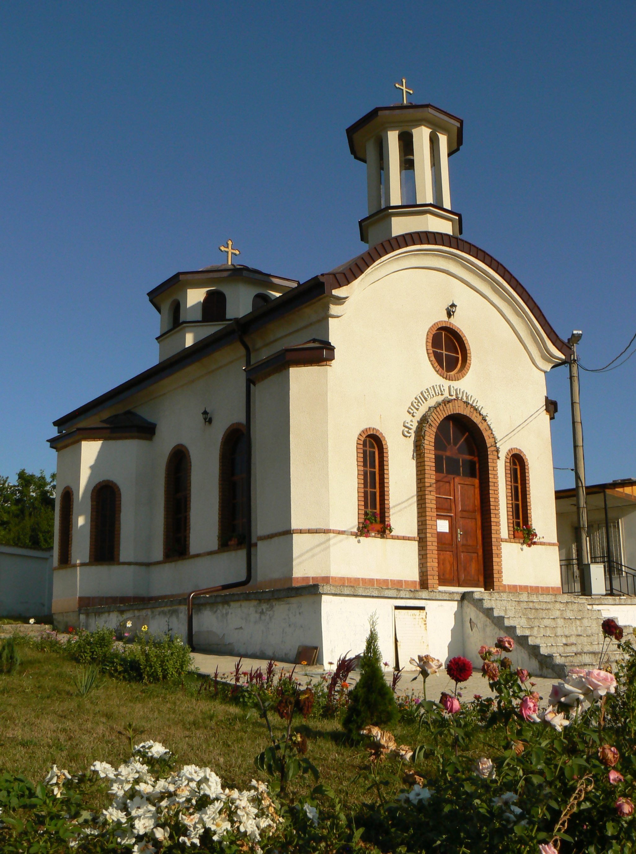 The church in village Dragichevo, Bulgaria